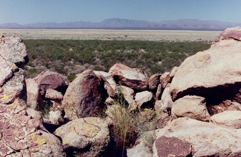 Is a picture of 3 castillos (named like this because they are three mountains) localizated in Coyame, Chihuahua, Mexico. In this took place the battle of 3 castillos between the apaches and the mexican army, the indian Victorio die here